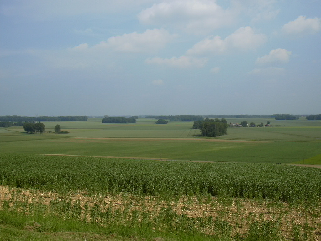 The plain around Doue, Seine-et-Marne, France, seen from the top of the "Doue Mount".